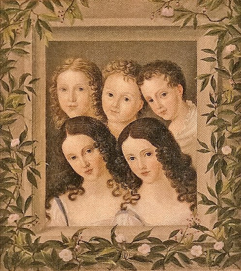 "The five children of Christian Detlv Carl Graf zu Rantzau (1772-1812) und Charlotte Ernestine Gräfin Rantzau-Ascheberg, geb. Freiin Diede zum Fürstenstein (1773-1846): Nancy (1798-1843), Louise (1799-1852), Fanny (1803-1823), Cuno (1809-1843) and Otto (1809-1867).